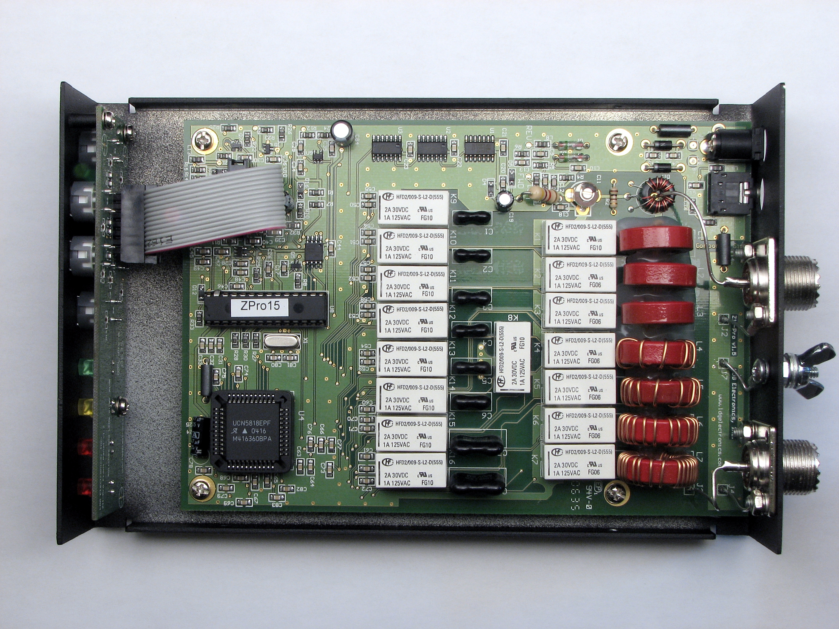 A modern microprocessor controlled automatic antenna tuner for ham operators.